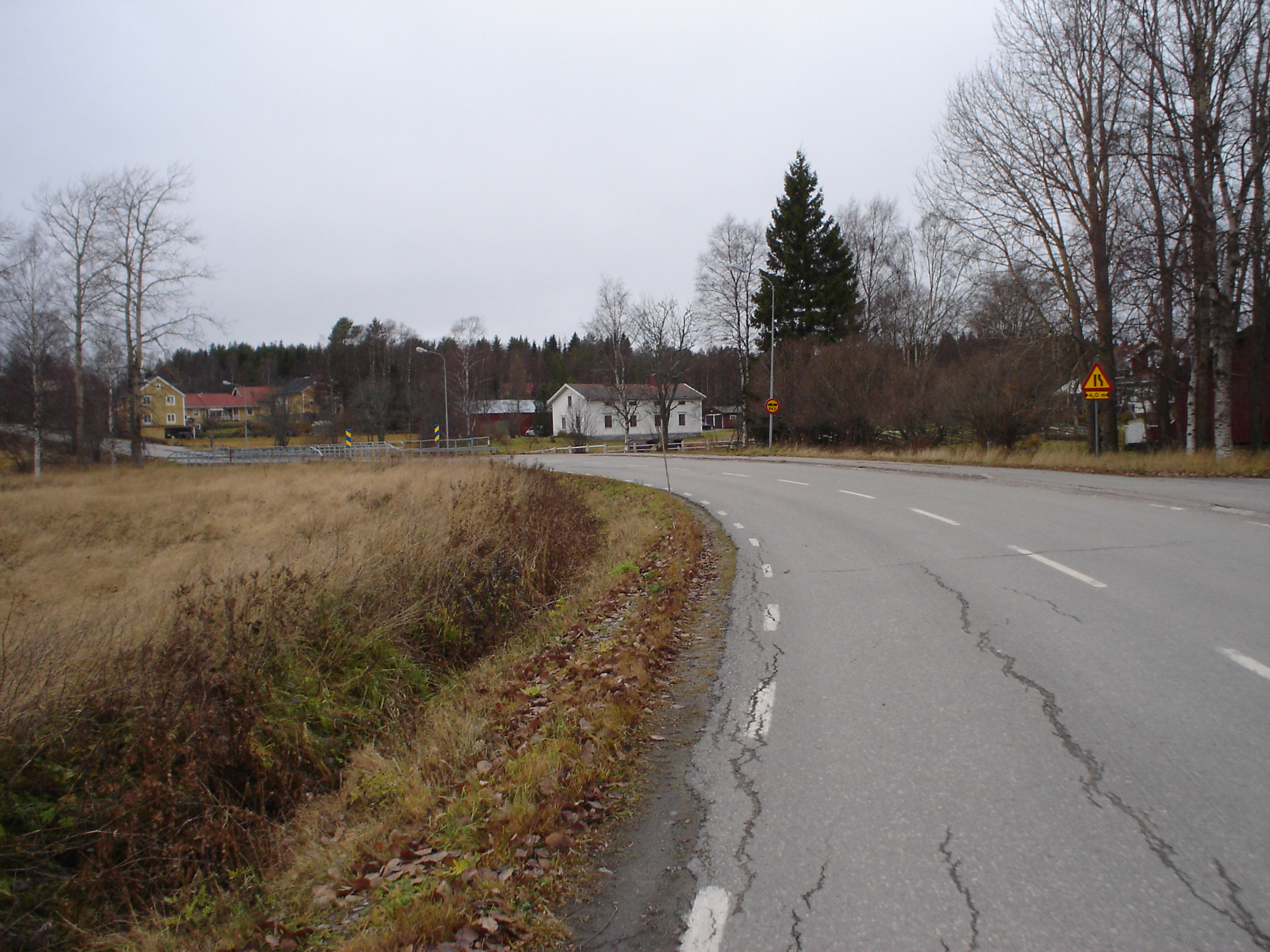 photo of Innertavle